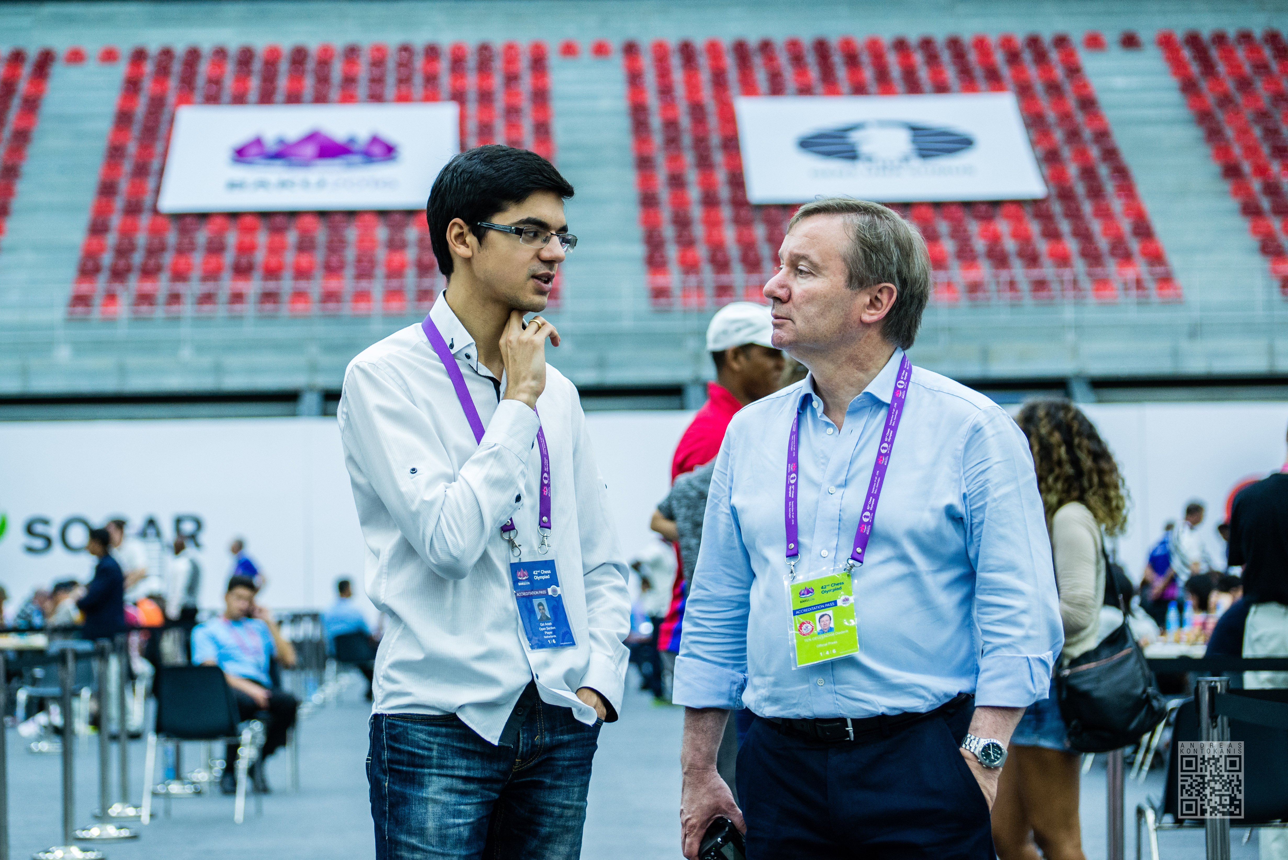 Giri Anish with Editor in chief of New in Chess Dirk Jan Ten Geuzendam